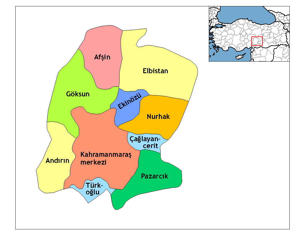 Map of the districts of Kahramanmaraş province in Turkey. Created by Rarelibra 21:57, 1 December 2006 (UTC) for public domain use, using MapInfo Professional v8.5 and various mapping resources. Edited by One Homo Sapiens Corrected text where İ,Ş,ı,ğ,or ş occurs in name. Source: [statoids-com]. Increased font size and enhanced color differences among adjacent districts.